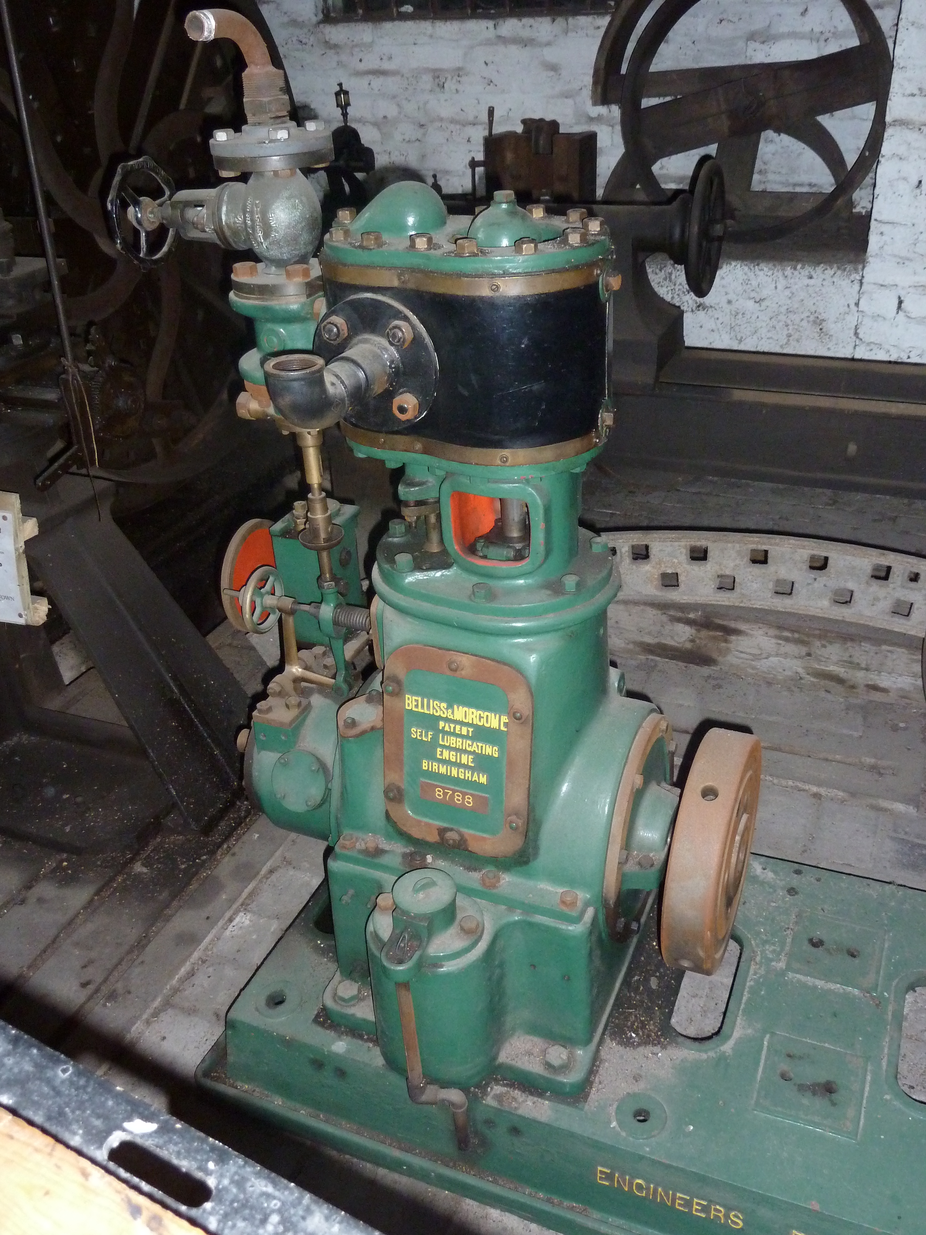 Bellis and Morcom single-cylinder high-speed steam engine, Blists Hill